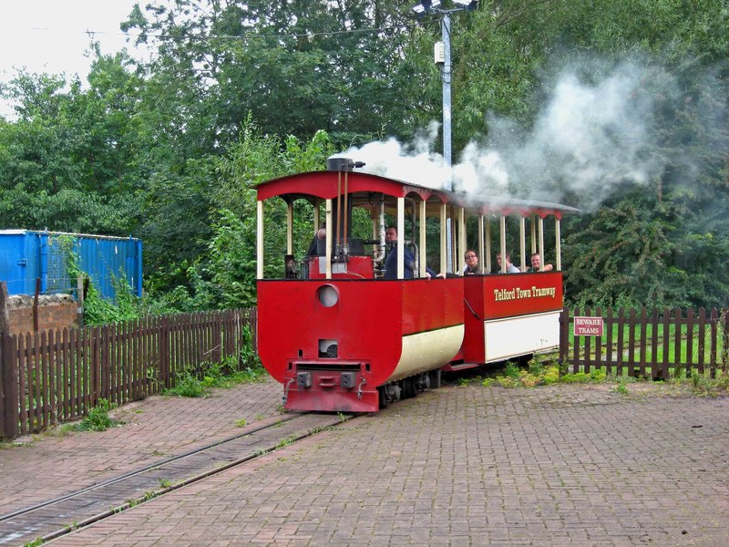 The steam tram and coach, at the Telford Steam Railway, run on a 2 foot narrow gauge track. This follows a short horseshoe shaped route, part of which runs near to the lake known as Horsehay Pool. In this view, the tram and coach have arrived at the area near the loco shed, where they pause very briefly before returning, coach first, to the starting point near the entrance. The main railway is standard gauge, and is on the other side of Pool Side. The tram was built by Alan Keef Ltd about 1977 for the Telford Development Corporation, and the coach, which is contemporary, was presumably built by Alan Keef Ltd too. The tram and coach originally ran in Telford Town Park, but didn’t last very long there. They were moved to their present site in the mid-1980's. Steam trams were at one time a fairly familiar sight, as in the last years of the 19th century and the early years of the 20th century, they were used in several towns and cities in the UK. Most were eventually replaced by electric trams. The steam tram at the Telford Steam Railway, in one of the very few working examples, and quite possibly the only narrow gauge one in the UK.